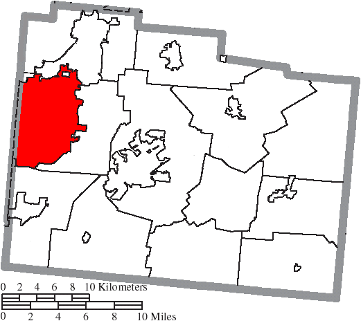 Map of the municipal and township boundaries of Greene County, Ohio, United States, as of the 2000 census, with the location of the city of Beavercreek highlighted. Township borders are shown only in unincorporated areas in order to differentiate incorporated and unincorporated areas more clearly.